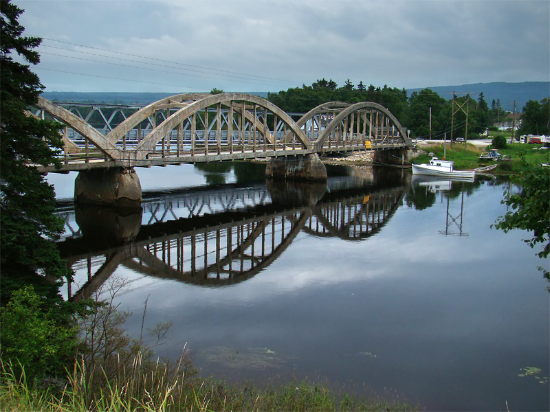 Nicholsville near Deer Lake, Western Newfoundland, Canada. On the Upper Humber River.